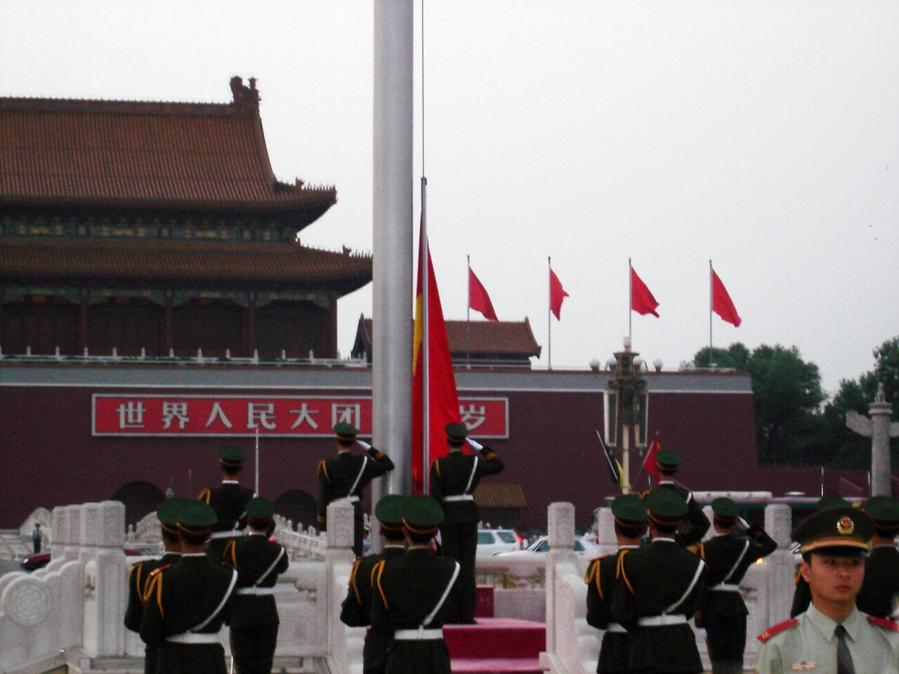 Flag hoisting ceremony in Tiananmen Square